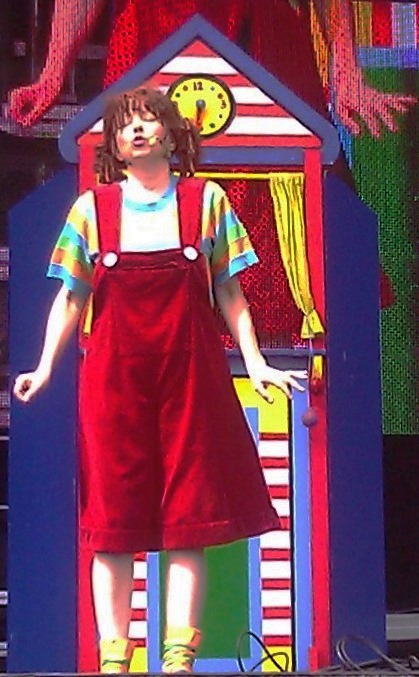 A Shilvi concert photographed in Montreal, Quebec, Canada at the exterior of the McGill University Health Centre.